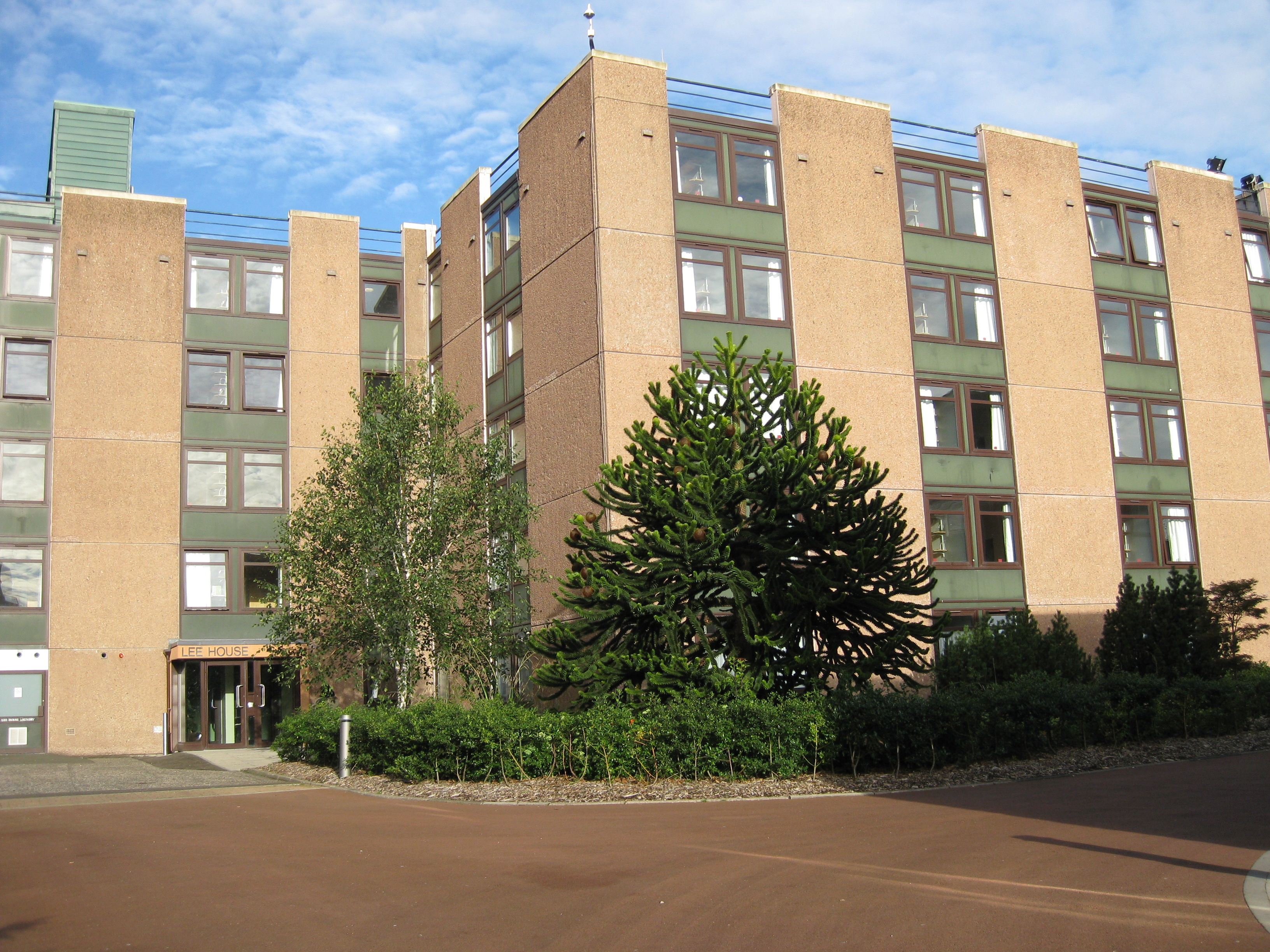 Lee House. Student hall of residence on the Pollock Halls site of the University of Edinburgh.